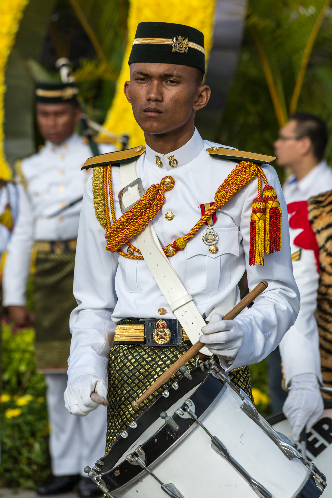 Kota Kinabalu, Sabah, Malaysia: Celebrations of Hari Merdeka 2013 in Likas on August 31, 2013